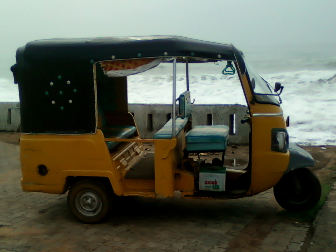 Auto rickshaw at Visakhapatnam RK Beach, Andhra Pradesh